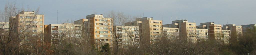 Communist Romanian apartment blocks in Bucarest